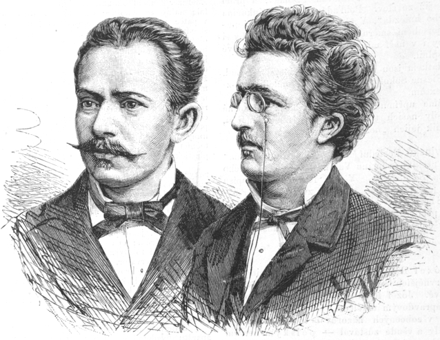 Jiří Chocholouš and Jan Dobruský, chess composers